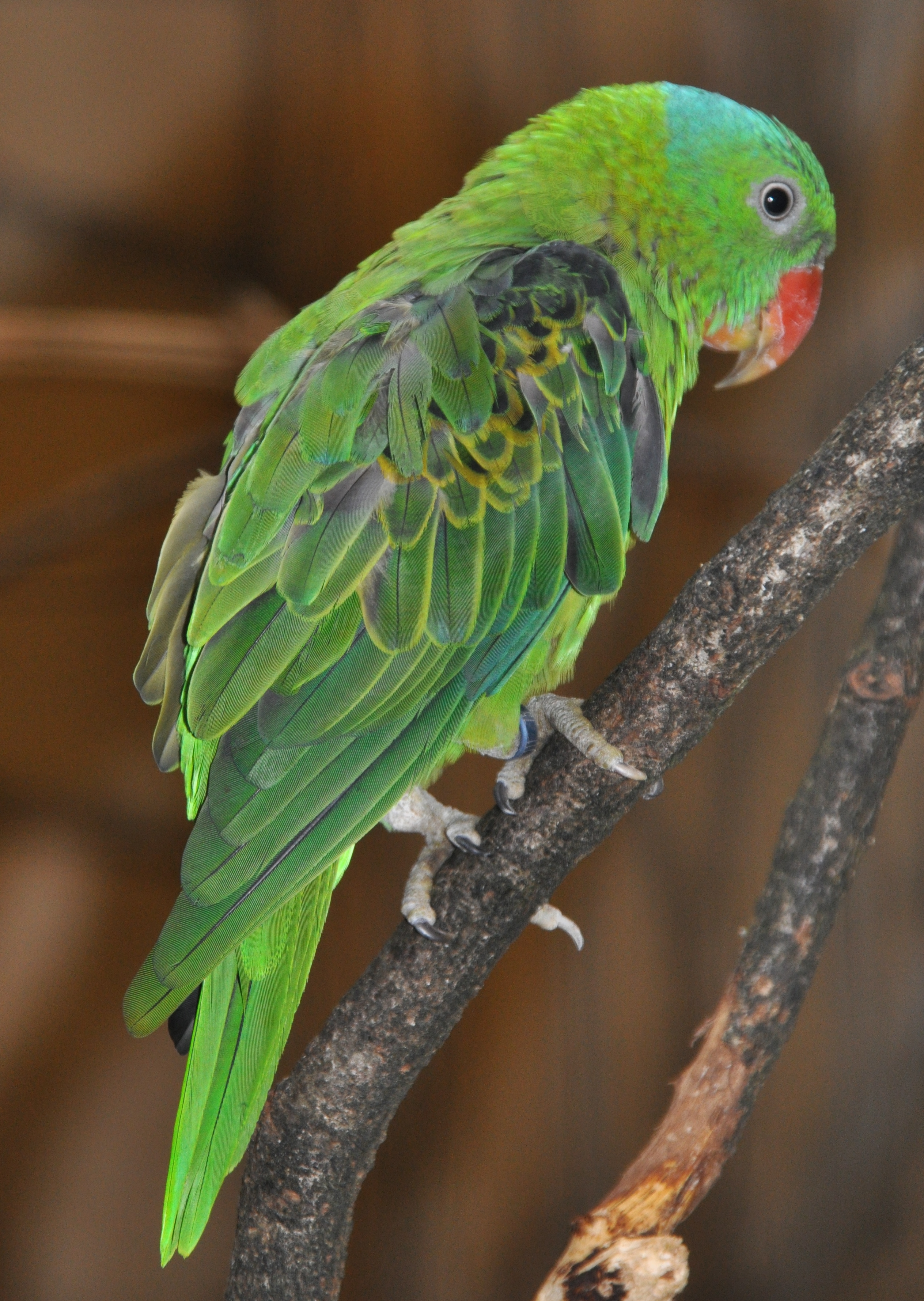 Blue-naped Parrot in the Walsrode Bird Park, Germany.